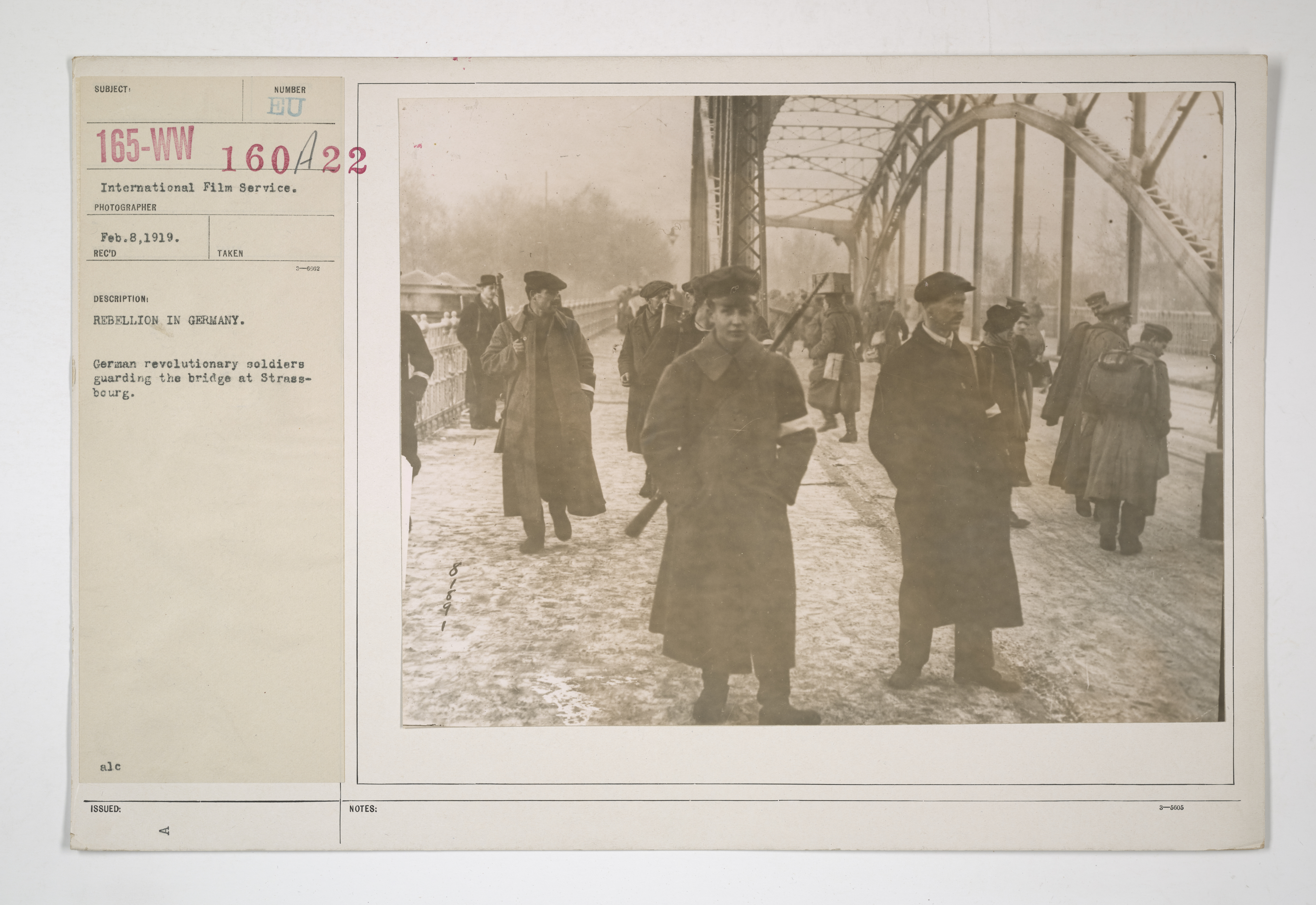 Scope and content: Photographer: International Film Service